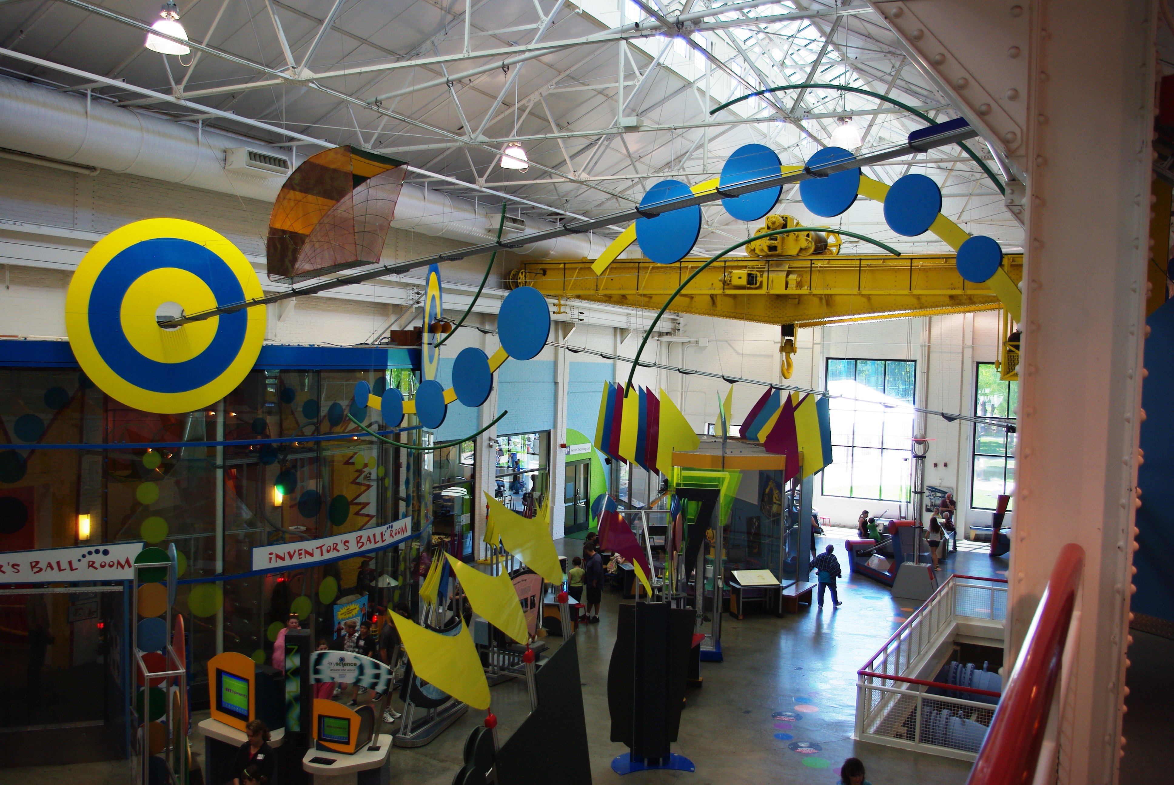 The Turbine Hall at Oregon Museum of Science and Industry.